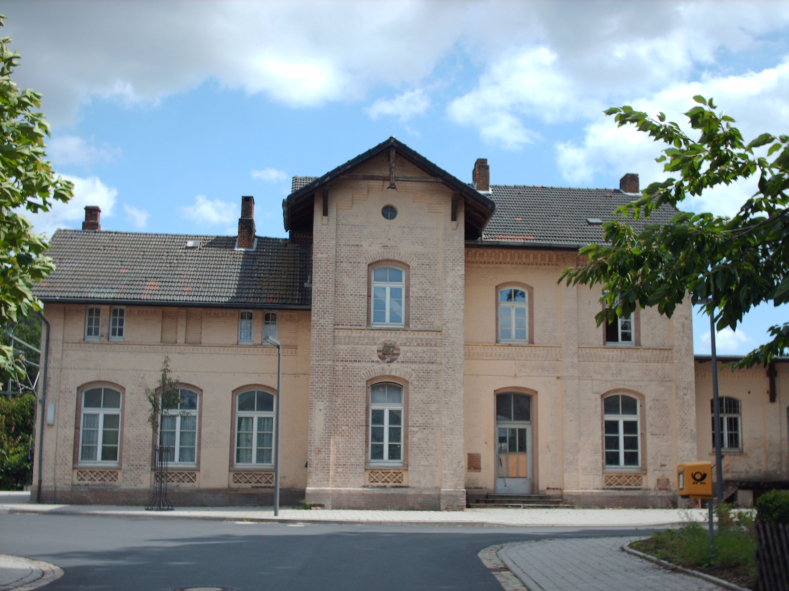 Lügde station, Lügde, Germany check usage